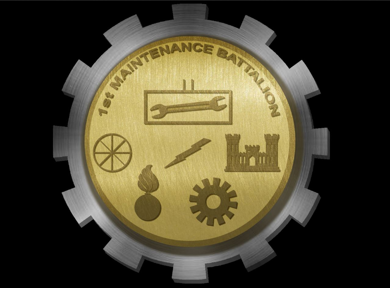 The 1st Maint Bn logo is a gold seal of the highest professional standards applied to our mission by our Marines and Sailors. The round logo contains military symbols of the battalion organization.